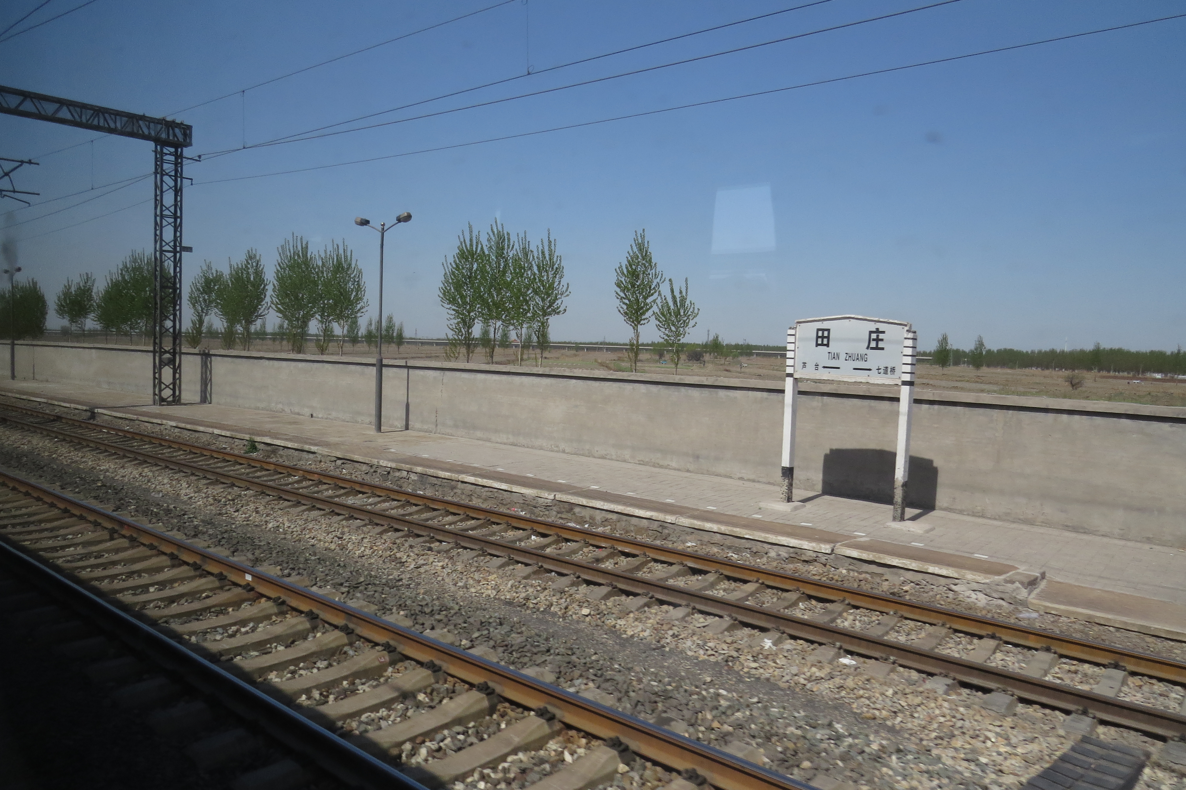 Taken from K78 Changchun-Ningbo train. Note the Tianjin-Qinhuangdao HSR on the back.